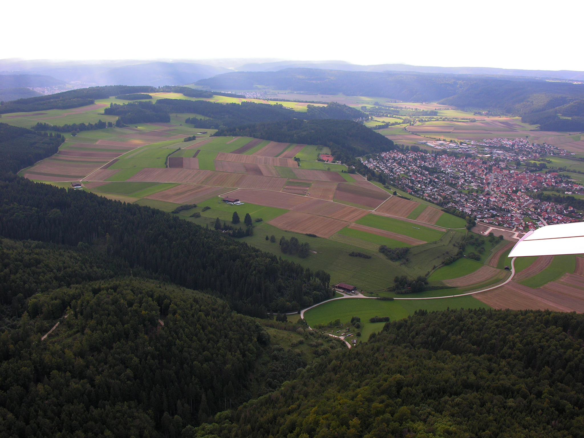 Germany, Baden-Württemberg, aerial view of Nendingen on the Danube